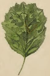 Stainton’s Natural History of the Tineina (1855–1873): Stigmella alnetella mined alder leaf